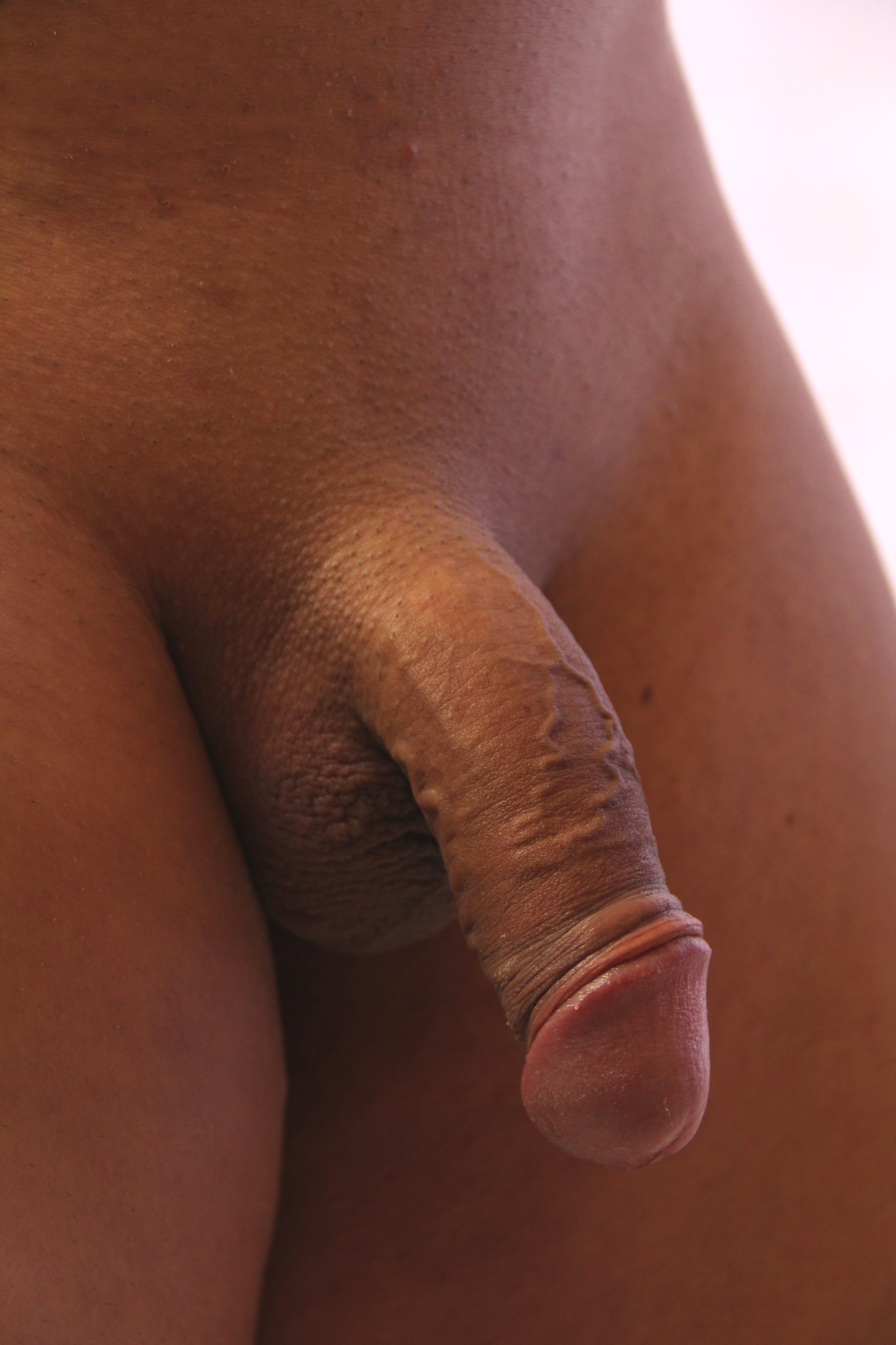 Shaved Genitalia of an 37 Year old male. His penis is uncircumcised, but the foreskin has been retracted to look circumcised.